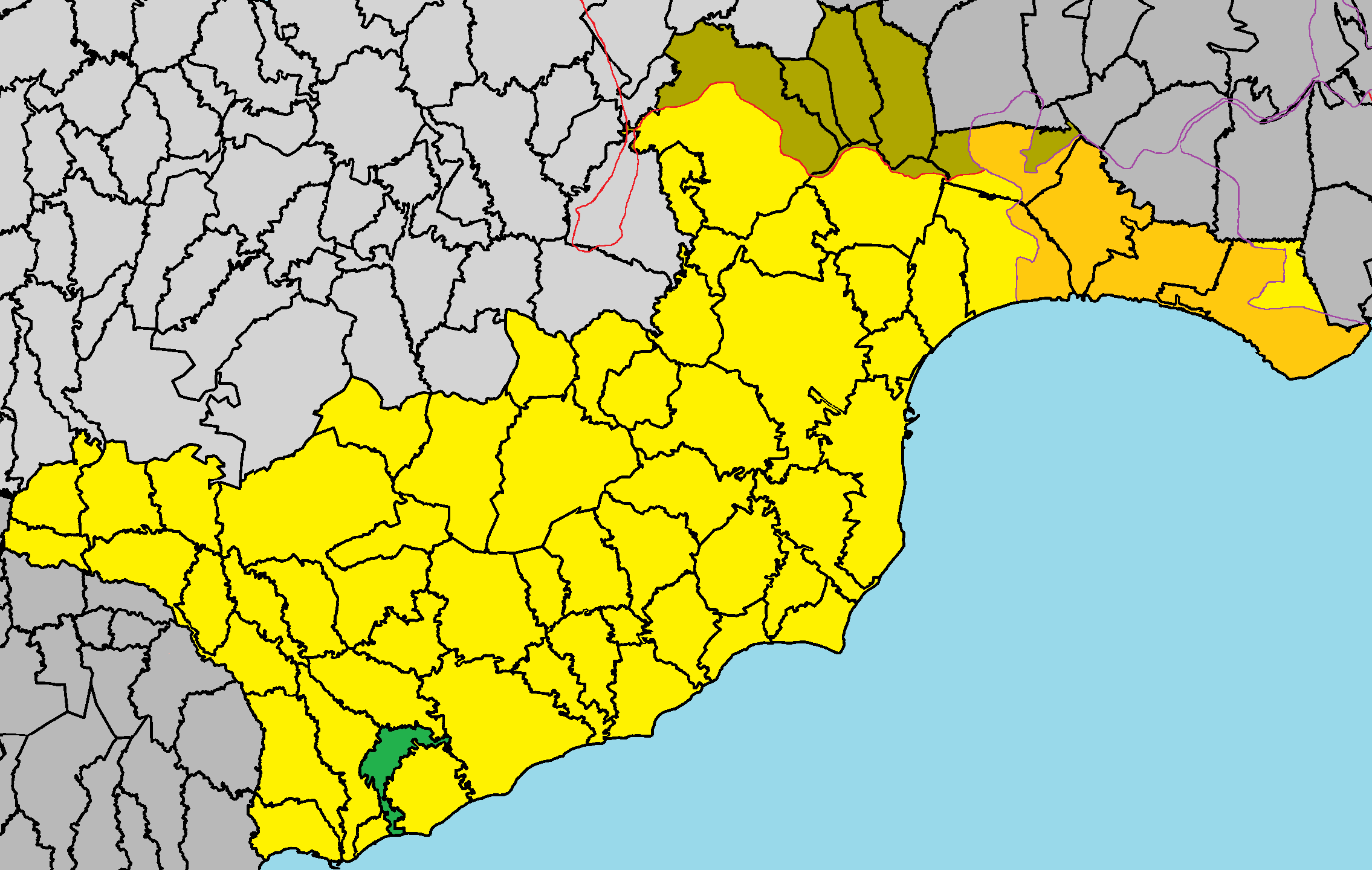 Psematismenos in Larnaca District.